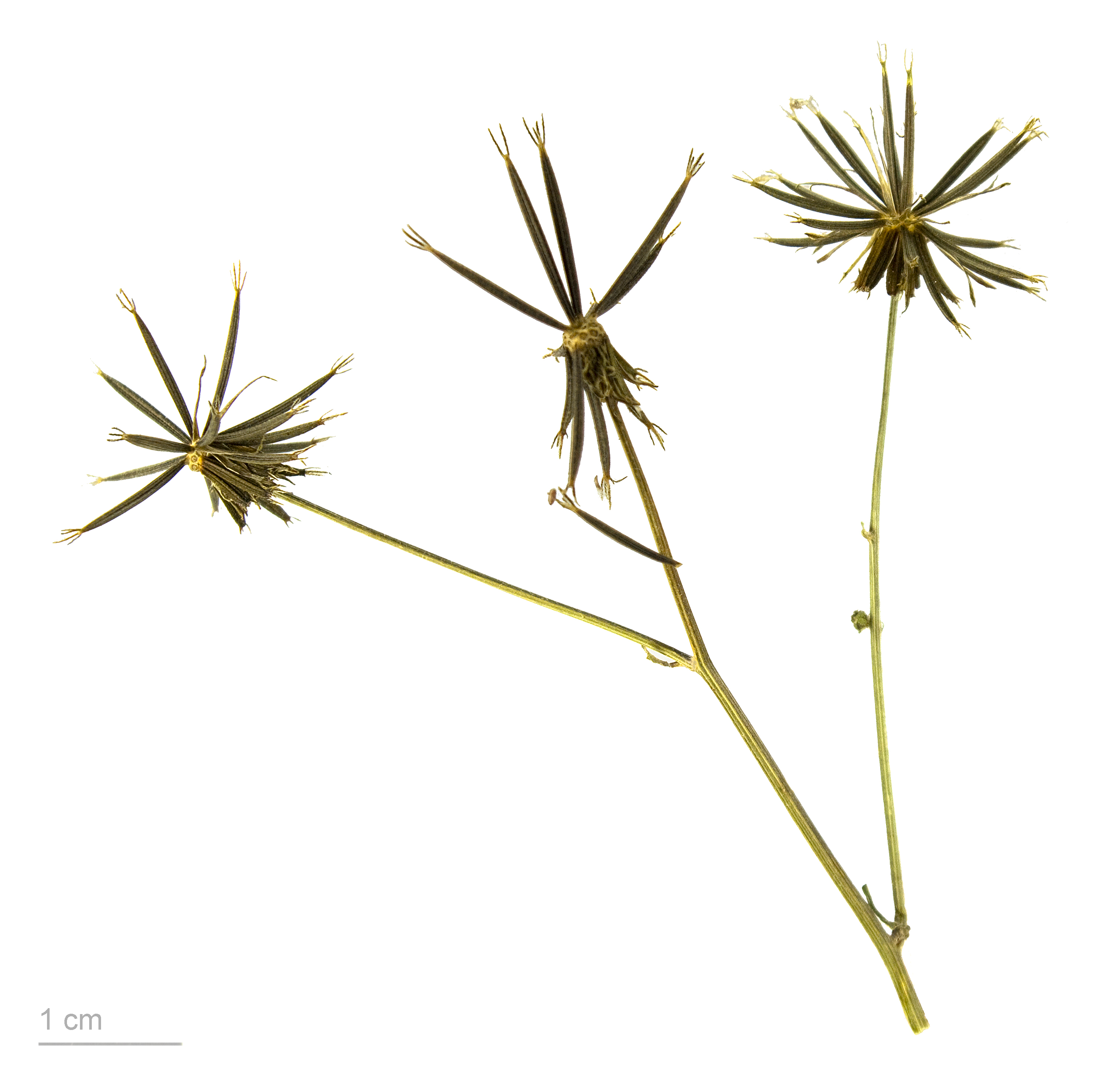 Bidens subalternans , fruits and seeds